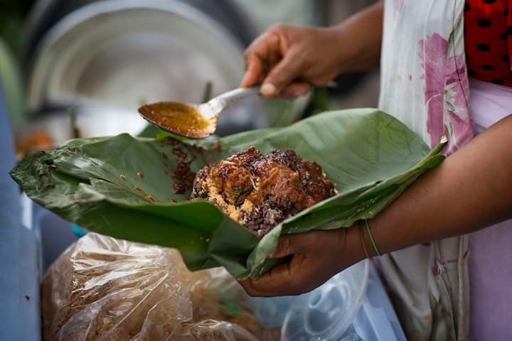 Waakye(rice and beans) is a local food in Ghana where most people enjoy in the morning and at lunch time even at night because of the sumptuous taste. When served in the leaves is very awesome because is medicinal. Very happy and mouth watery when i saw the seller serving me because it was my turn after long hours of queue. This is an image with the theme "Play" from: Ghana